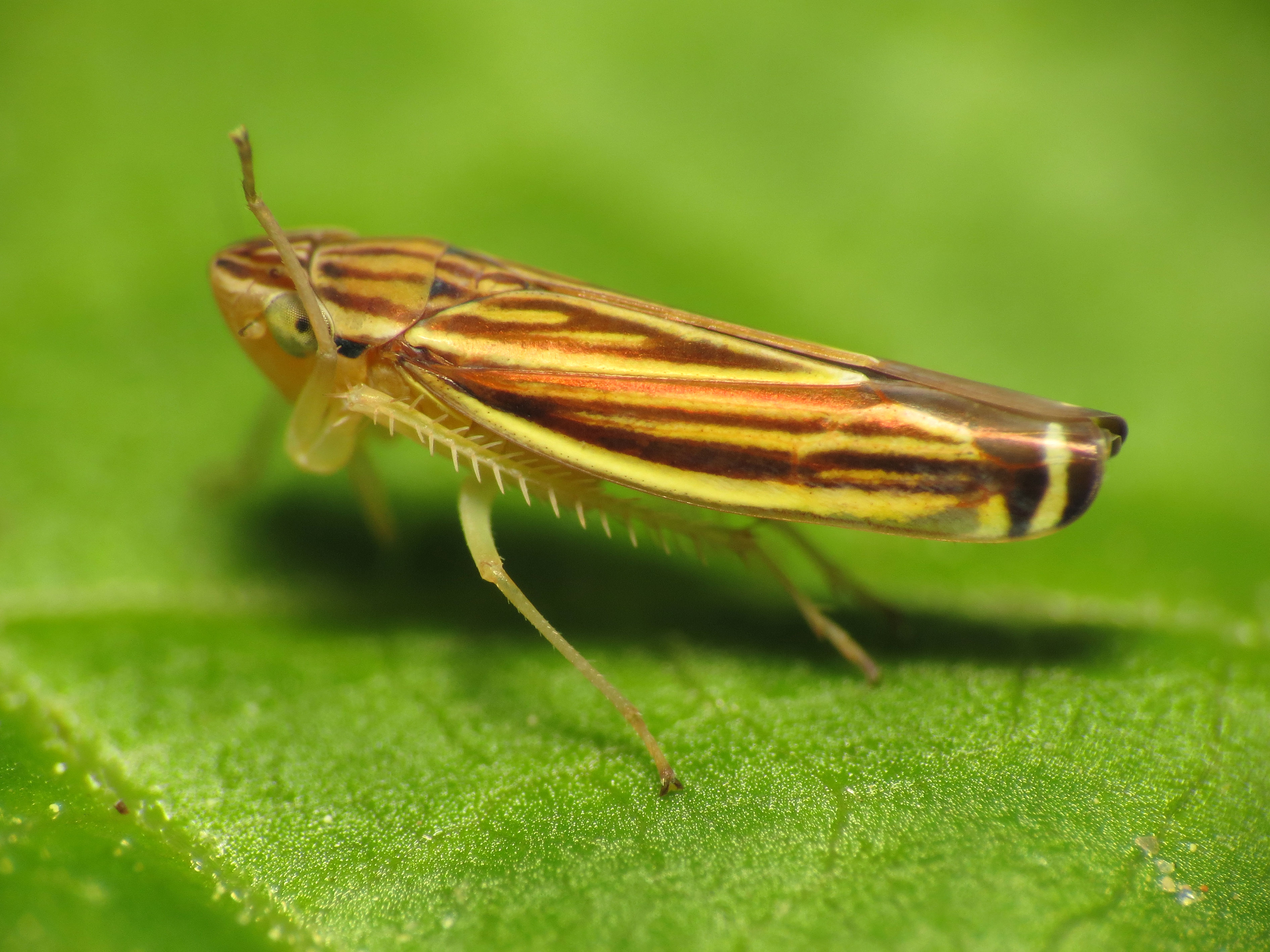 Sibovia occatoria. Rock Creek Park, Washington, DC, USA. 25 May 2014.